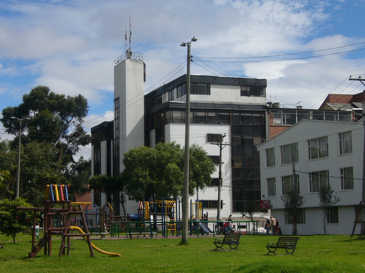 The Federmán Hospital, located in the surroundings of "Parque Central Federmán".